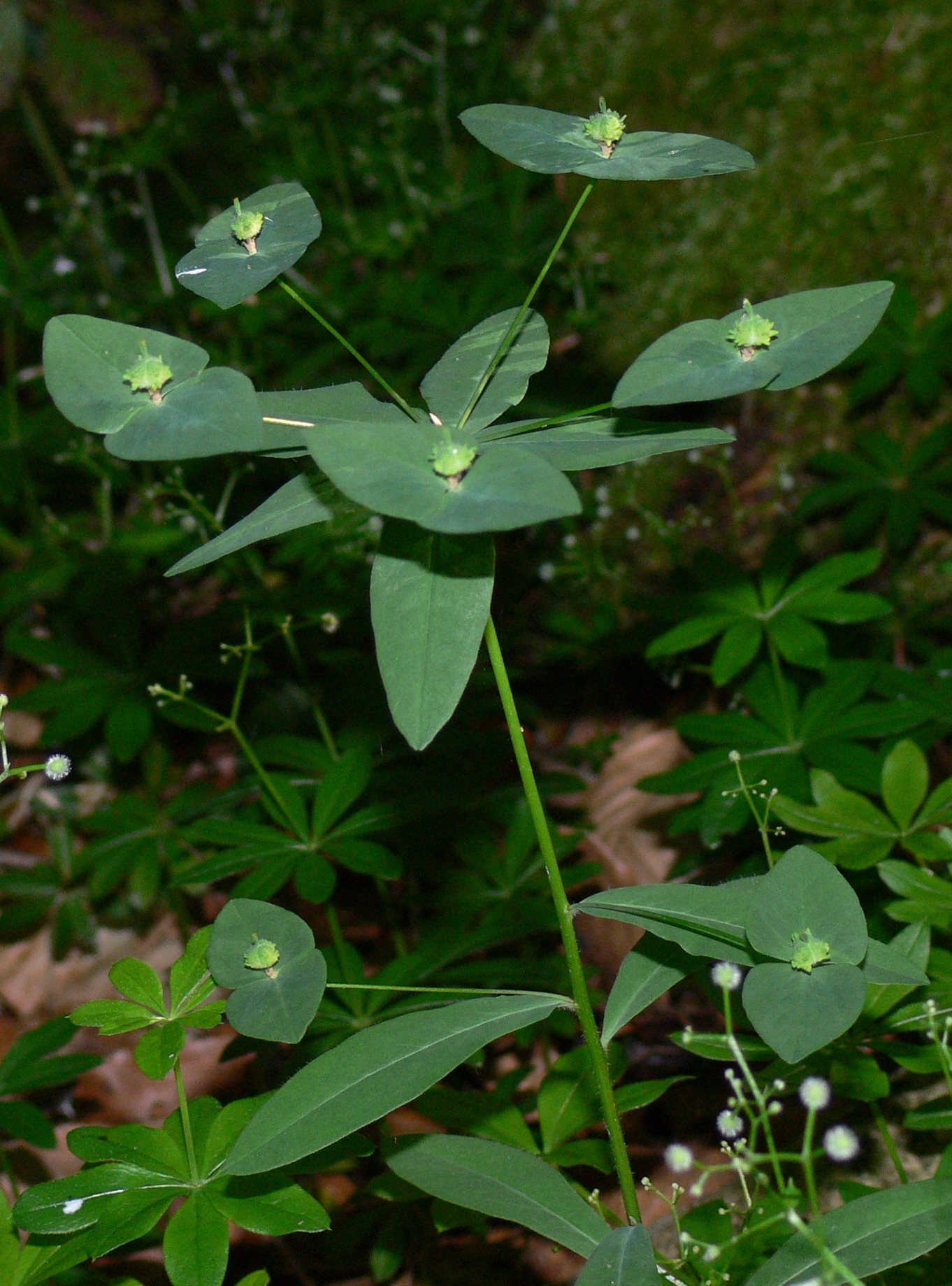 Sweet Spurge